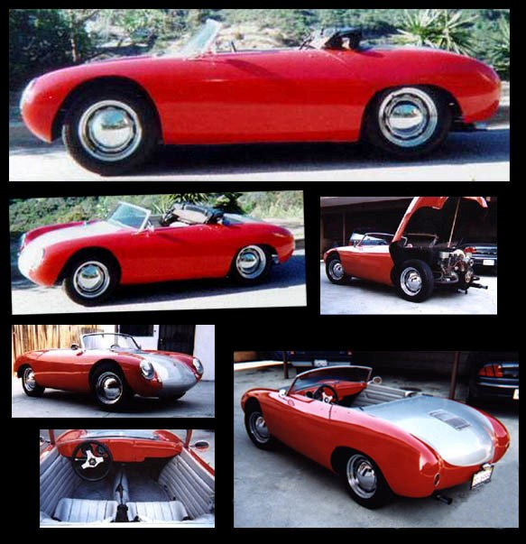 Replica of Porsche 550, aka Porsche Spyder, constructed from a Kit Car. Montage of 6 photos.